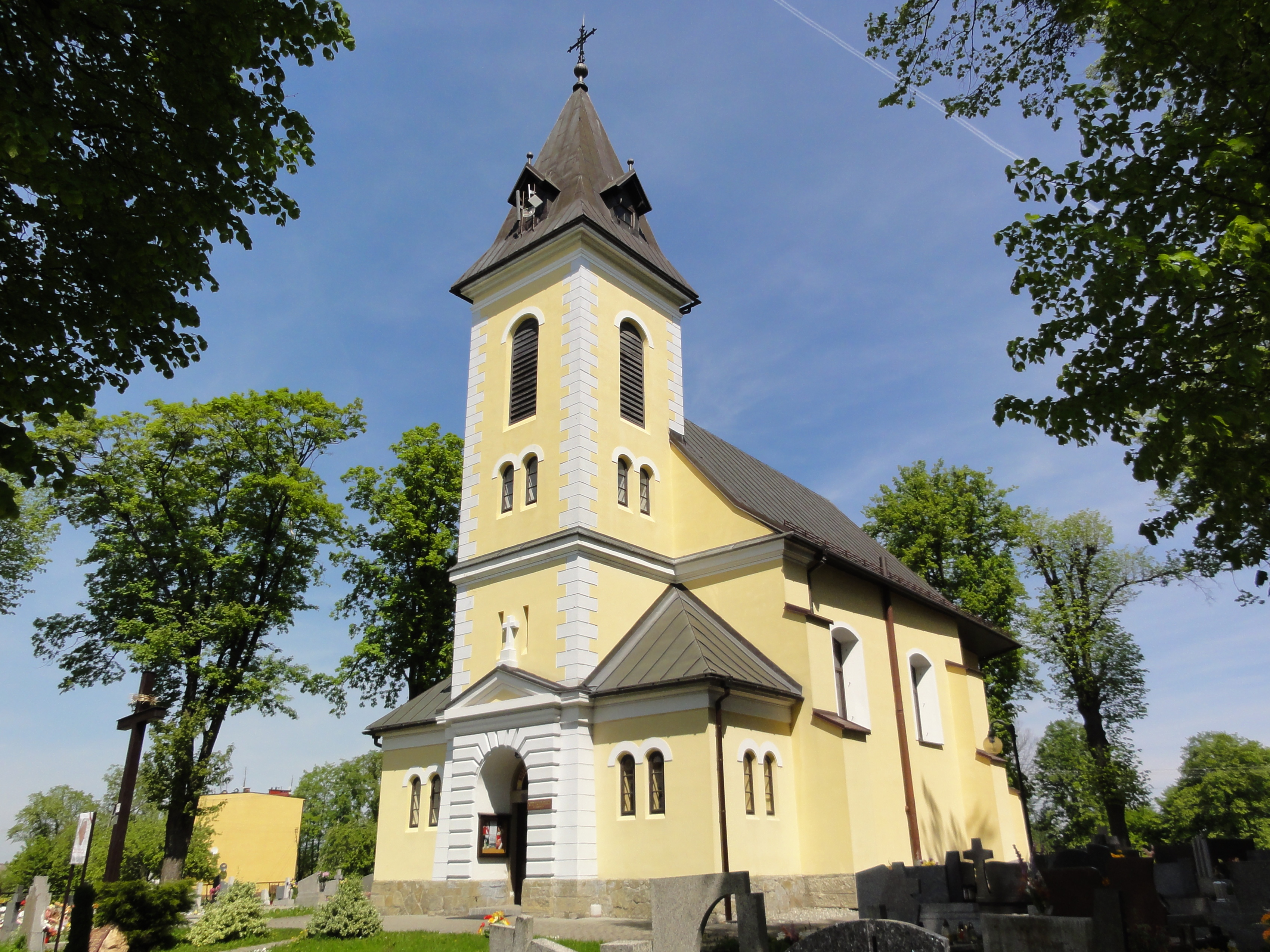 Church of Saint James in Simoradz